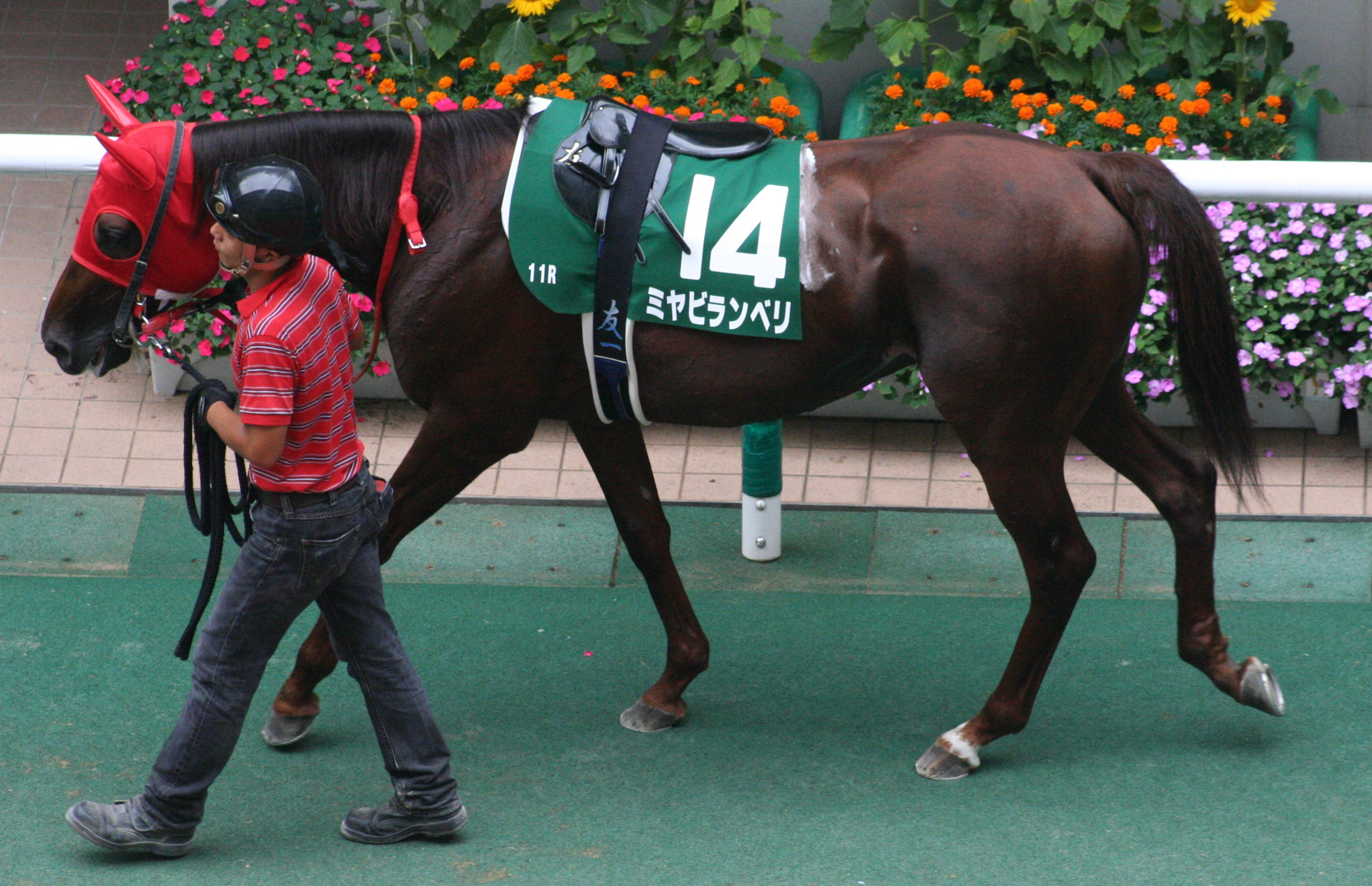 Miyabi Ranveli